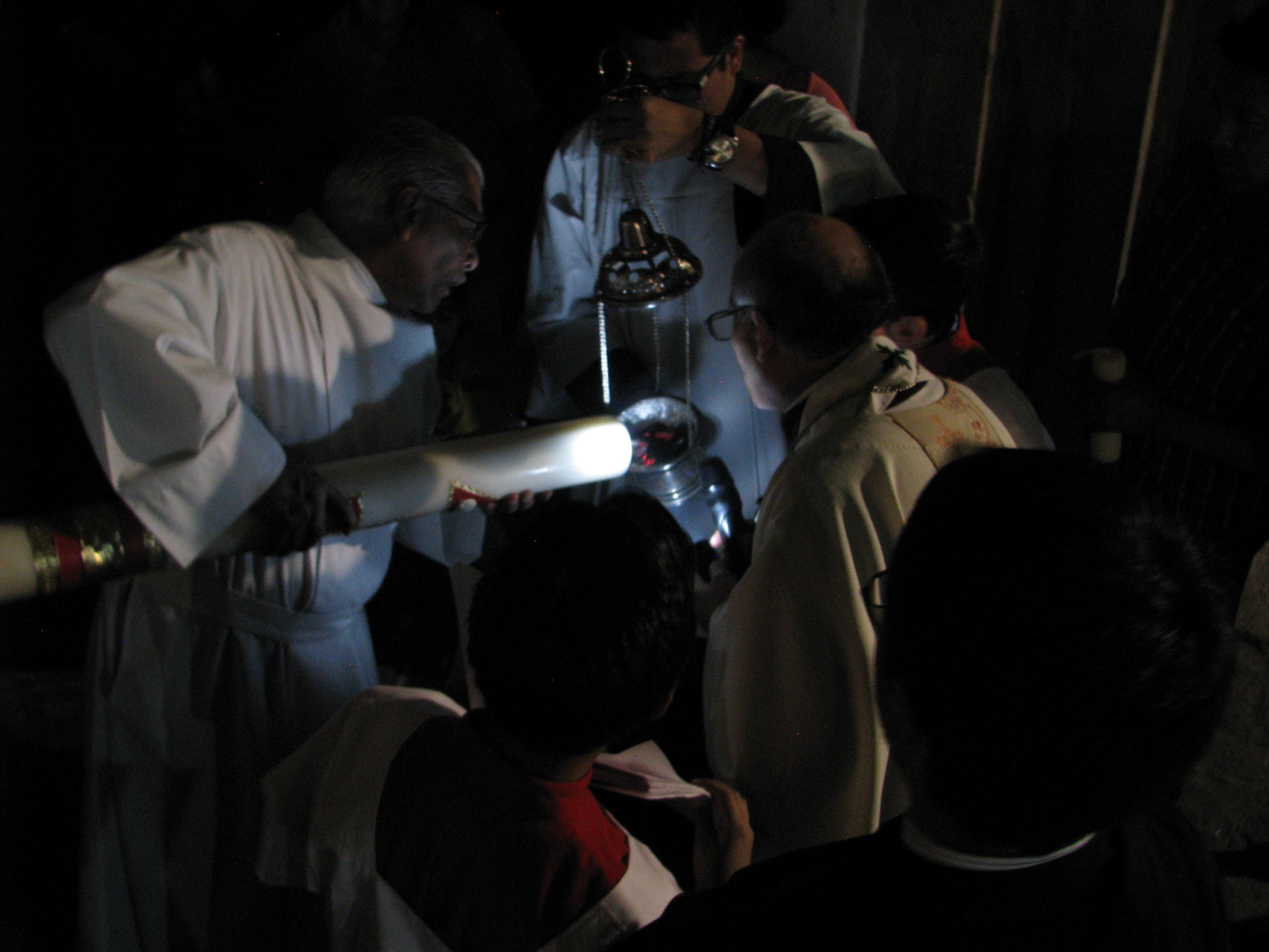 Holy Week, Holy Saturday,Blessing of the new fire where the paschal candle is lit with incandescent coal; Parish of St. Rita of Cascia, Mexico City, Mexico